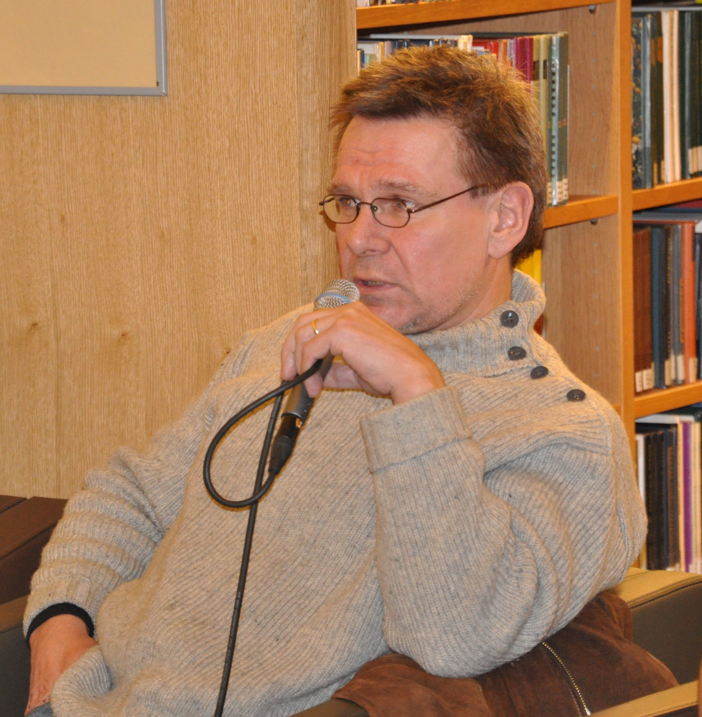 Finnish writer Hannu Raittila speaking at Turku Main Library.